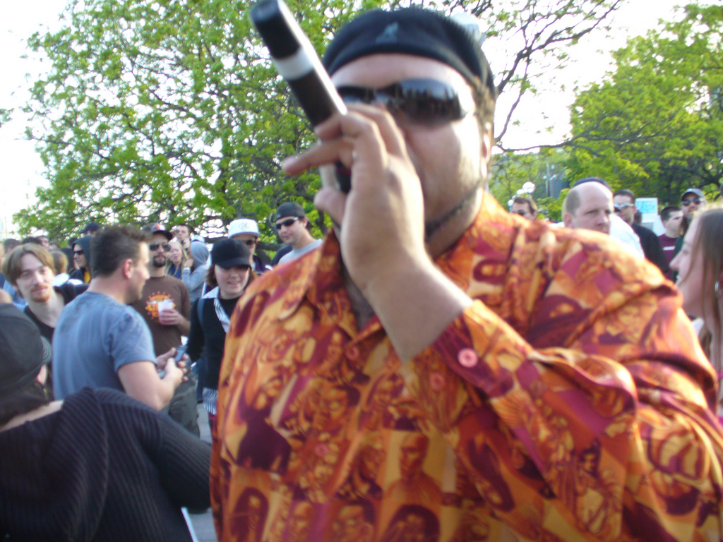 Egyptian Lover (Greg Broussard)